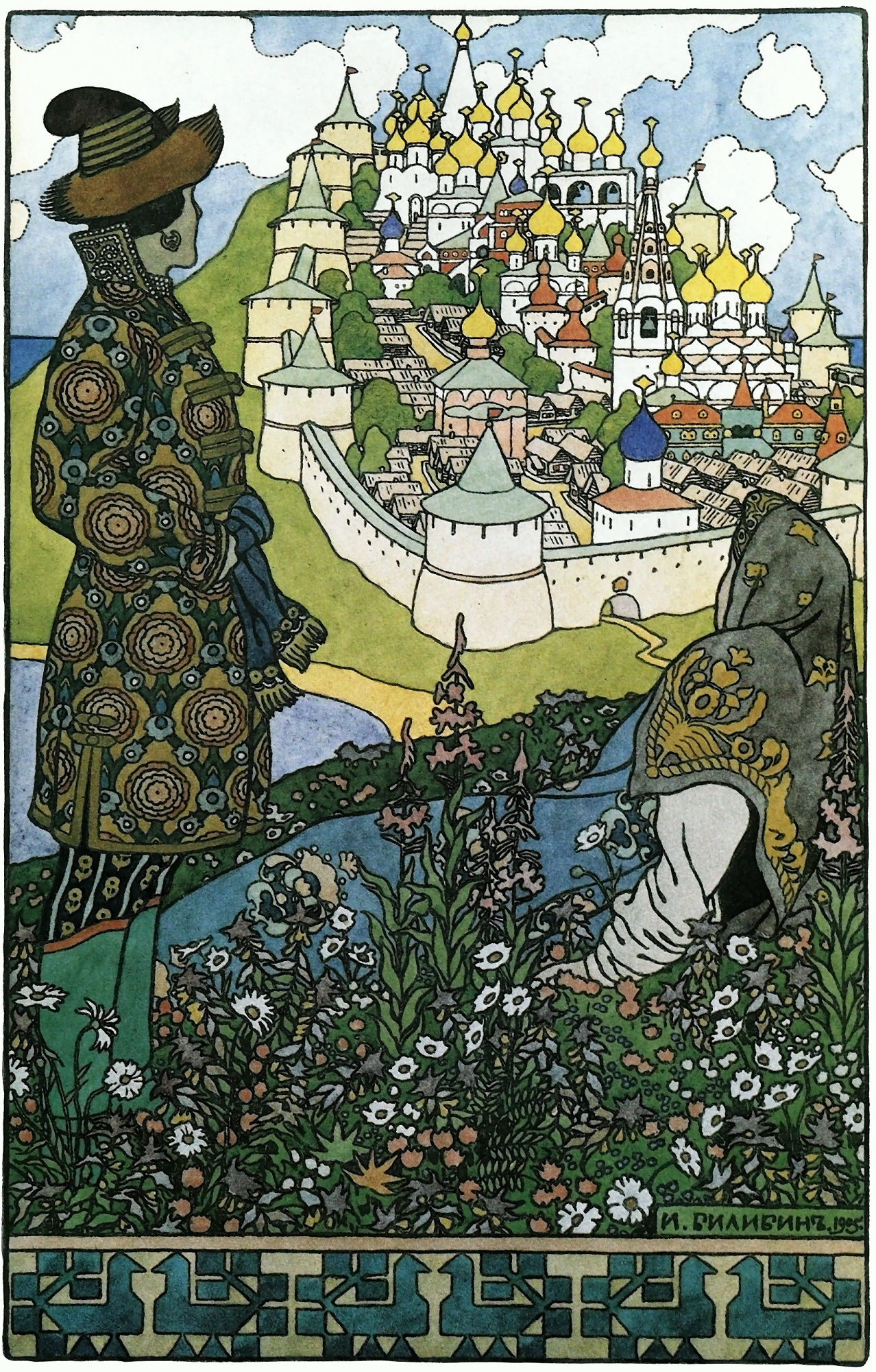 Illustration for Alexander Pushkin's 'Fairytale of the Tsar Saltan'